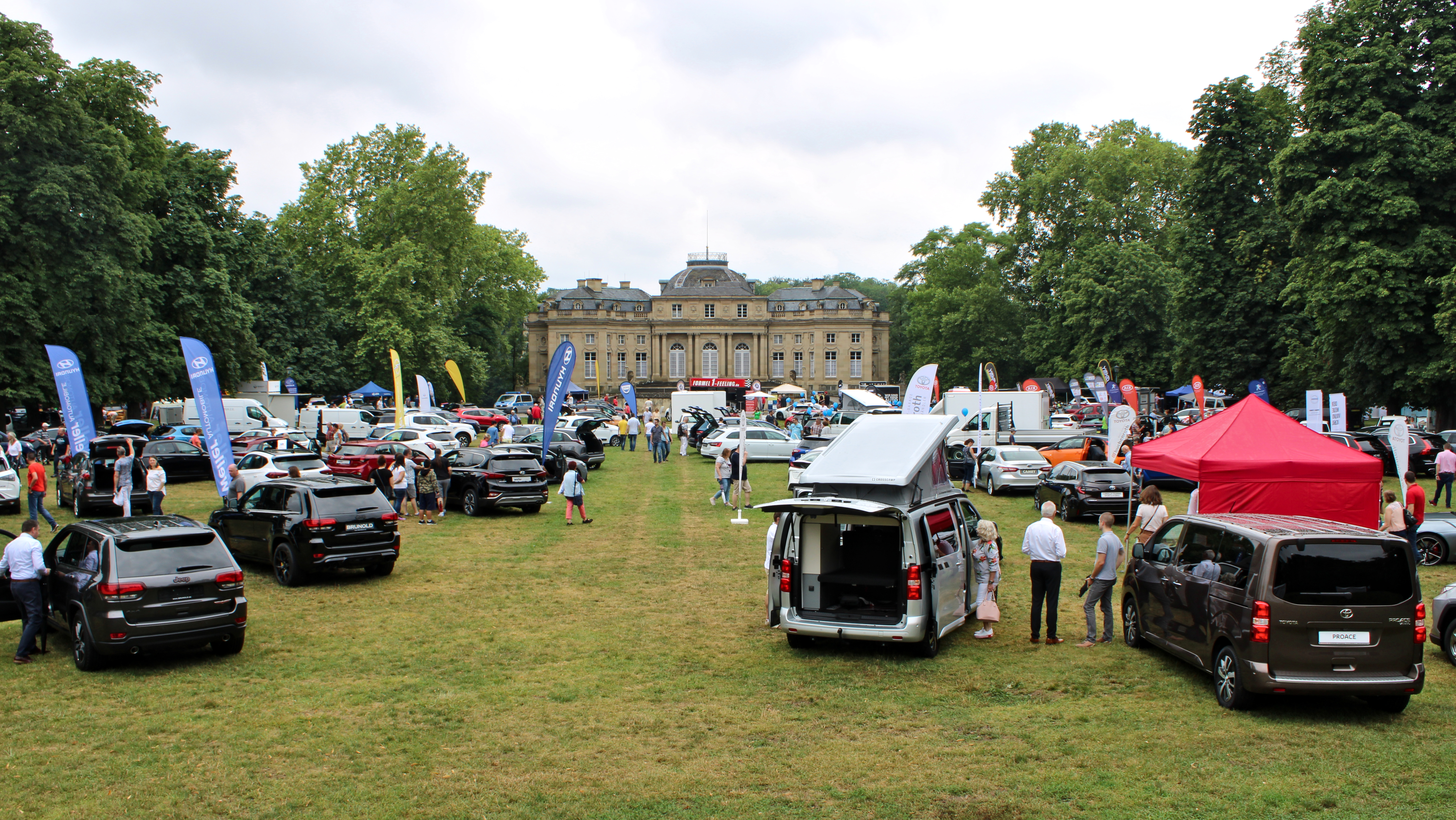 Schloss Monrepos in July 2019